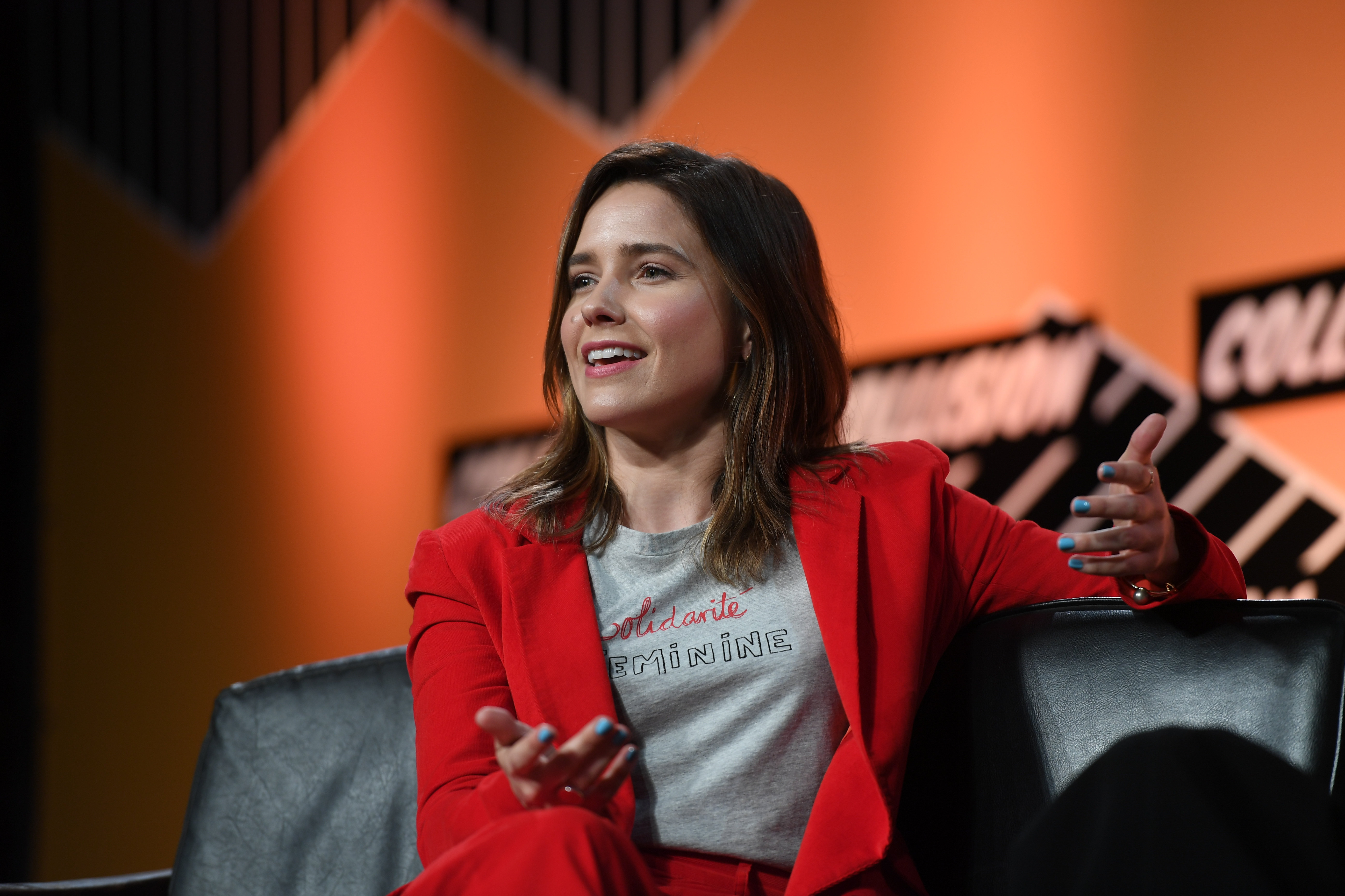 4 May 2017; Alysia Reiner, right Actress&Activist, Alysia Reiner, and Sophia Bush, Actress/Activist, The Girl Project, prepare to speak on the Center Stage at Collision 2017 in New Orleans, Louisiana. Photo by Stephen McCarthy / Collision / Sportsfile